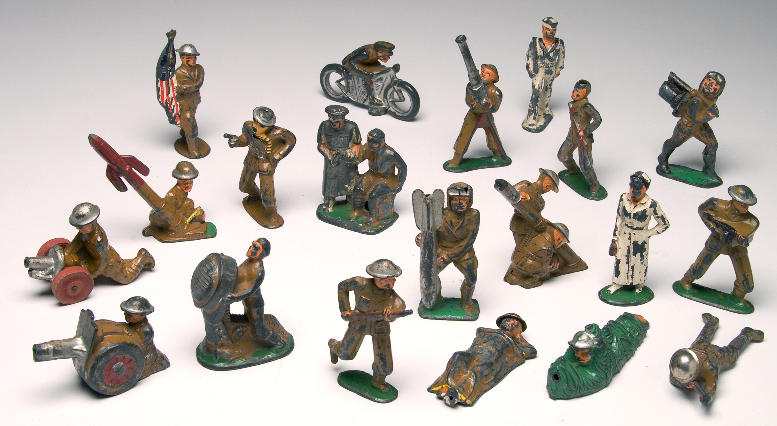 (63.13.1) Set of 40 World War I era toy soldiers, Barclay Manufacturing Company, West Hoboken, New Jersey, ca. 1925. On display at Minnesota's Greatest Generation exhibit at the Minnesota History Center.